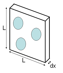 Figure to explain "mean-free-path"